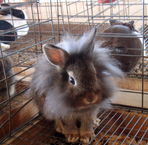 Originally posted here